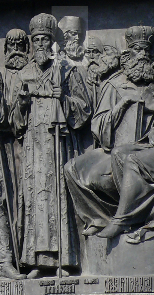 Tikhon of Zadonsk on the Monument "Millennuim of Russia" in Veliky Novgorod